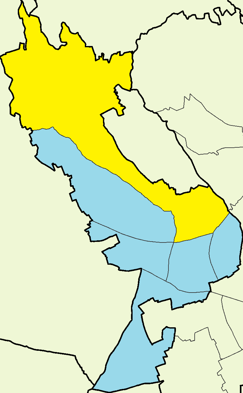 Panagía Evangelístria in Kato Polemidia.